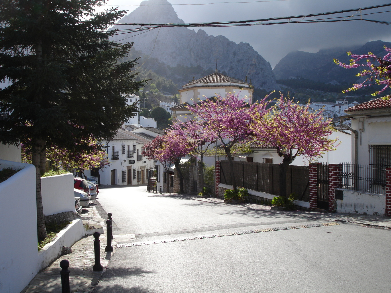 Grazalema